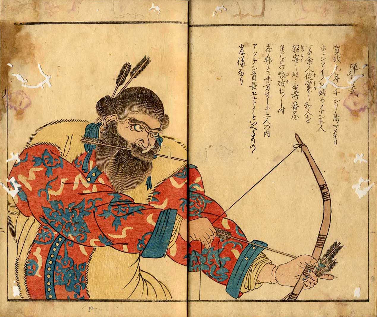 Ezo Manga, by Matsuura Takeshiro, Sapporo Municipal Central Library, Sapporo, Hokkaido, Japan